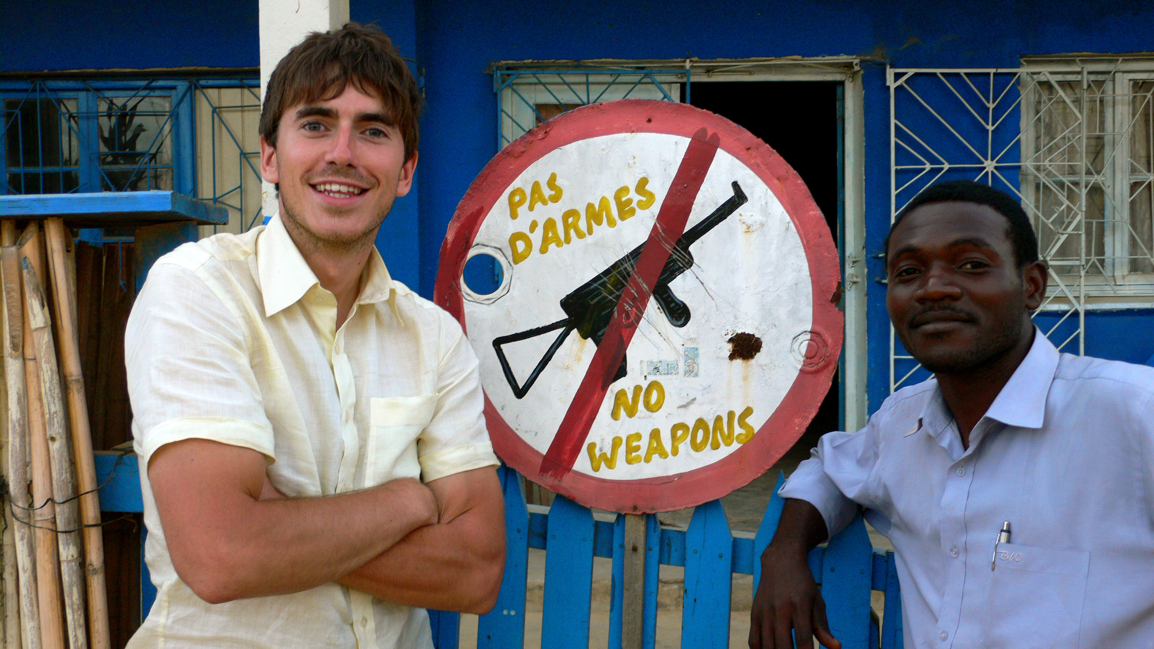 EQUATOR – AFRICA - Democratic Republic of Congo – presenter Simon Reeve and his guide Emery Makumeno outside a bar in eastern Congo where weapons are banned. At least 4m people Congolese have died since 1998 in the deadliest conflict since WW2.